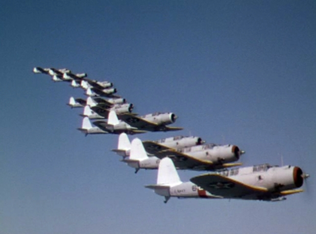 U.S. Navy Vought SB2U Vindicator dive bombers of Bombing Squadron VB-4 High Hatters in formation during the movie Dive Bomber (1941). VB-4 operated from the USS Enterprise (CV-6) in the movie, but was in reality assigned to USS Ranger (CV-4).